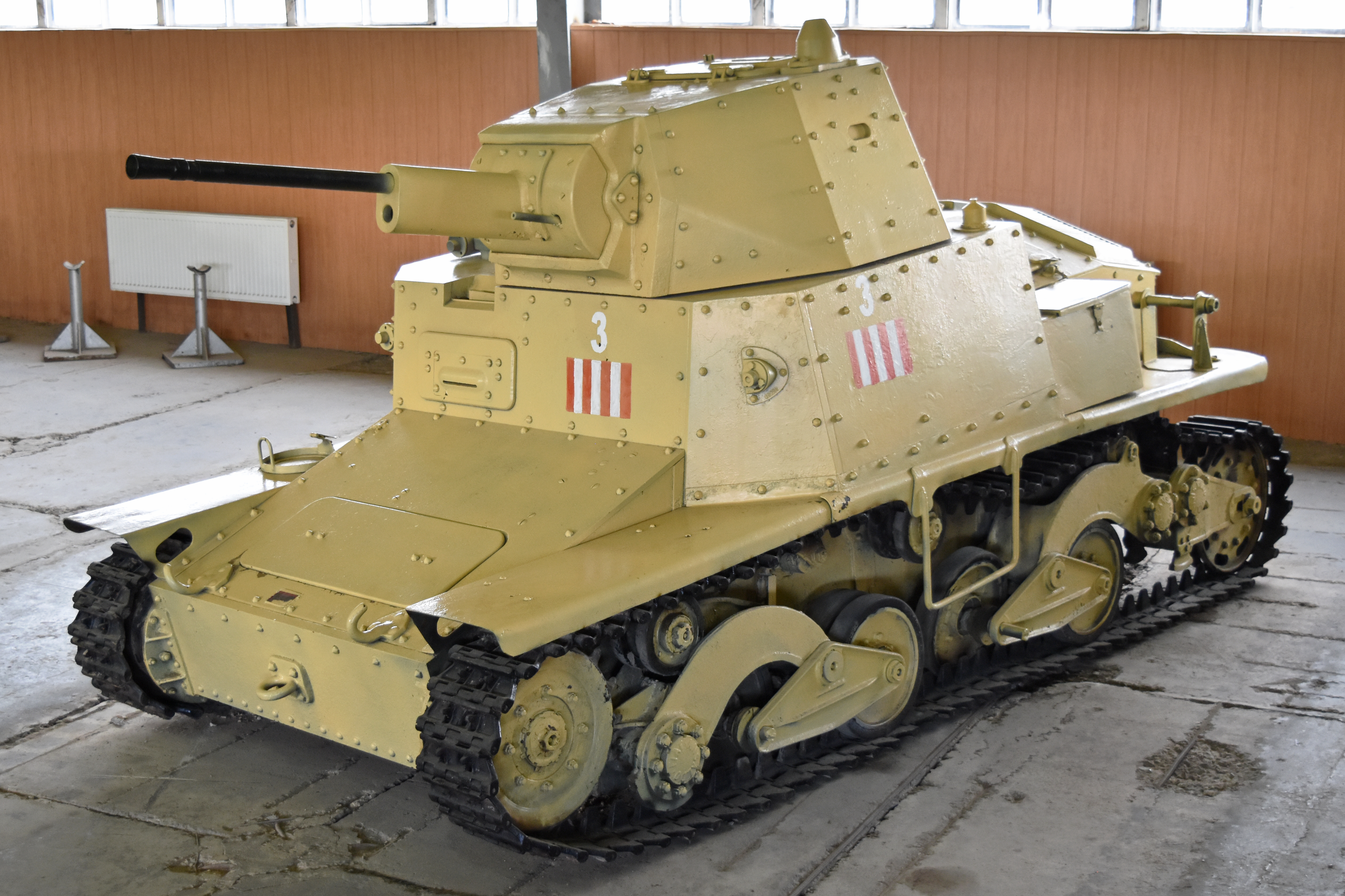 Italian WW2 Light Tank Designer & Manufacturer:- Fiat-Ansaldo Built:- 1939-1944 Total Production:- 283 Main Armament:- 20mm Breda Modello 35 gun The L6/40 was originally designed for export but instead it interested the Italian Army and went on to be the main Italian tank on the Eastern Front, as well as serving in the North African campaign. Three survive, this one being on display in what is best known as Hall 5 of the Kubinka Tank Museum, although its official title is now Pavilion 5 in Area 2 of the Park Patriot museum. Kubinka, Moscow Oblast, Russia. 24th August 2017.